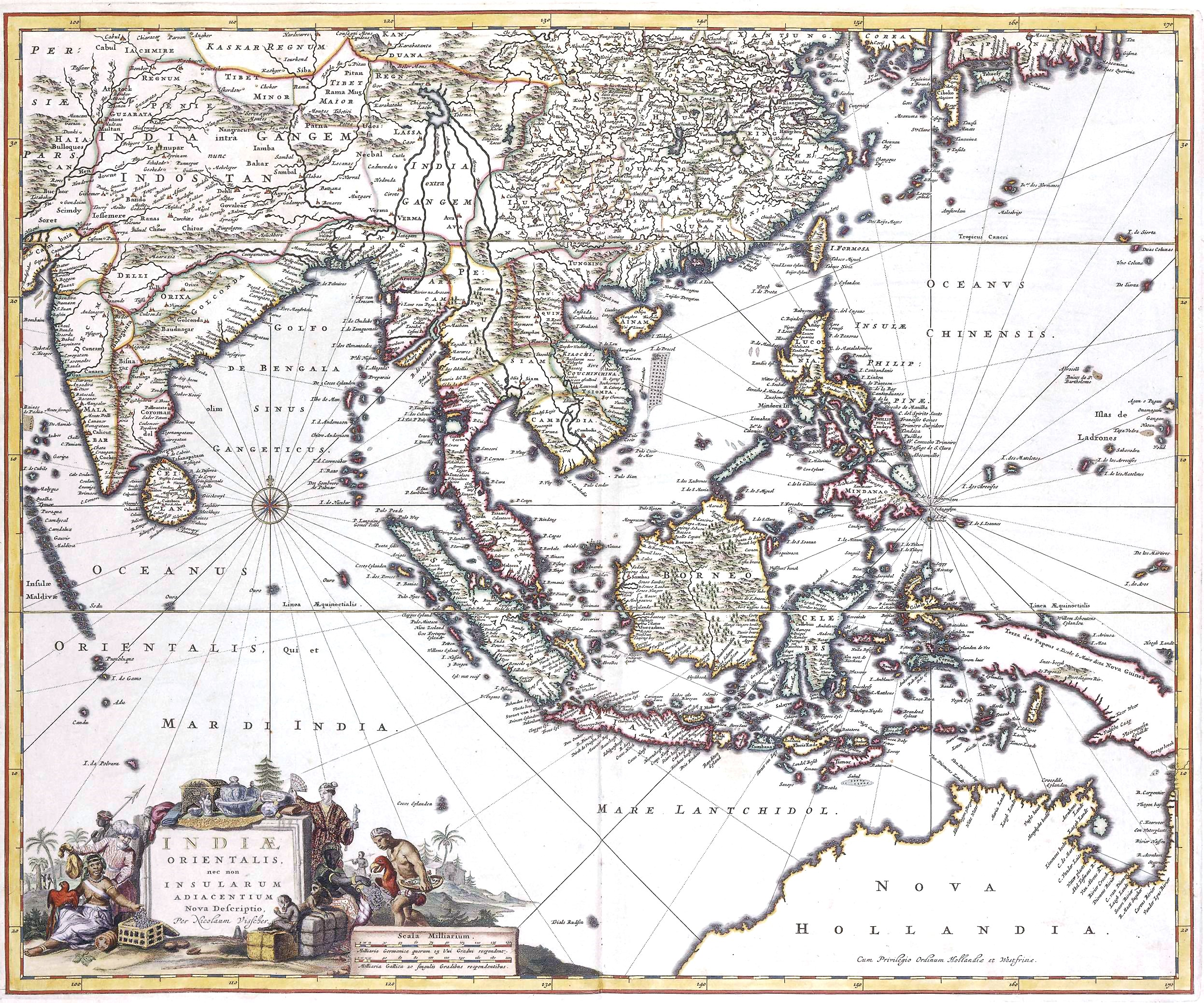 Indiae Orientalis, 17th century map by by Nicolaes Visscher II